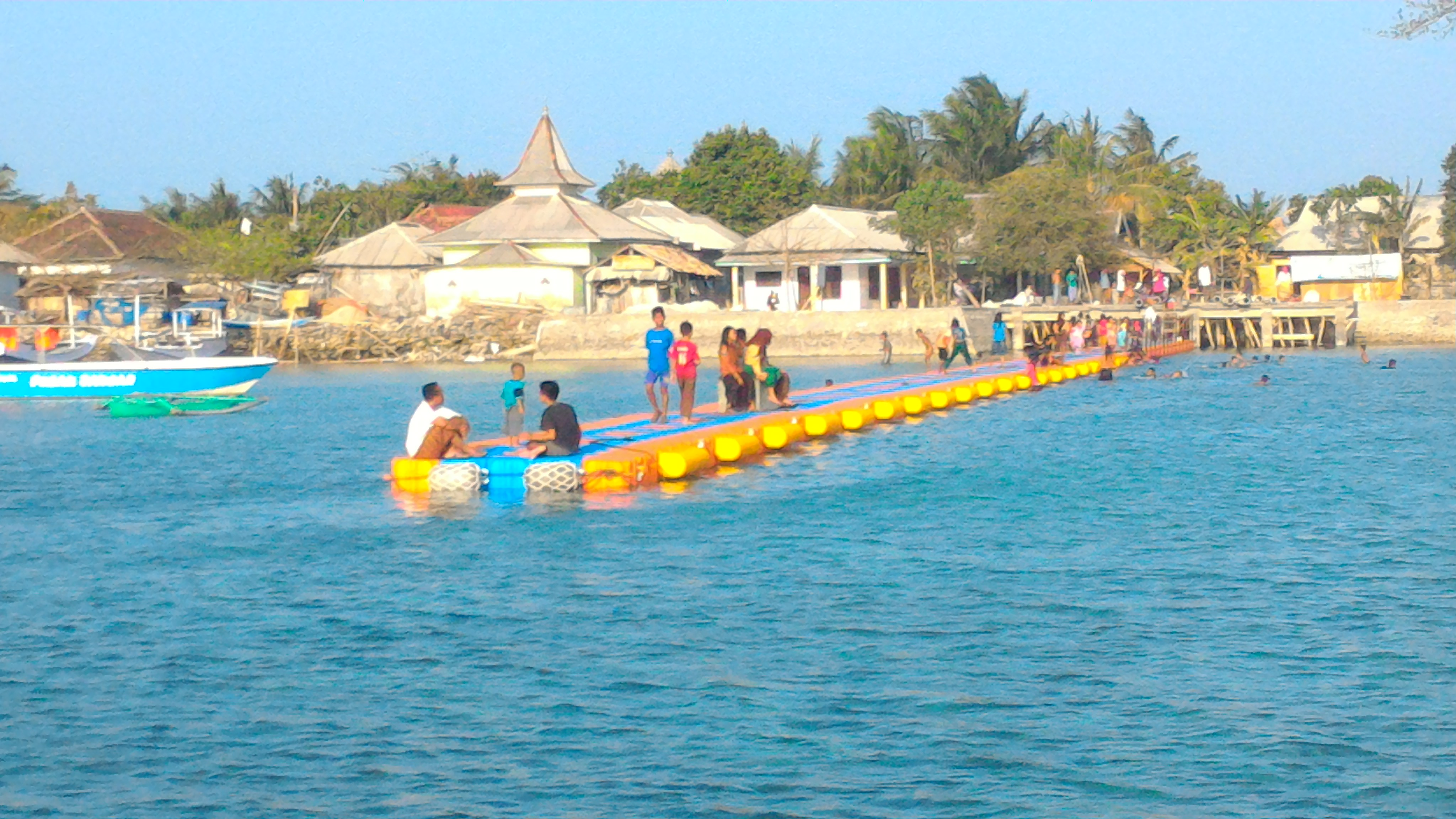 Floating Dock in Gili Noko Island - Bawean